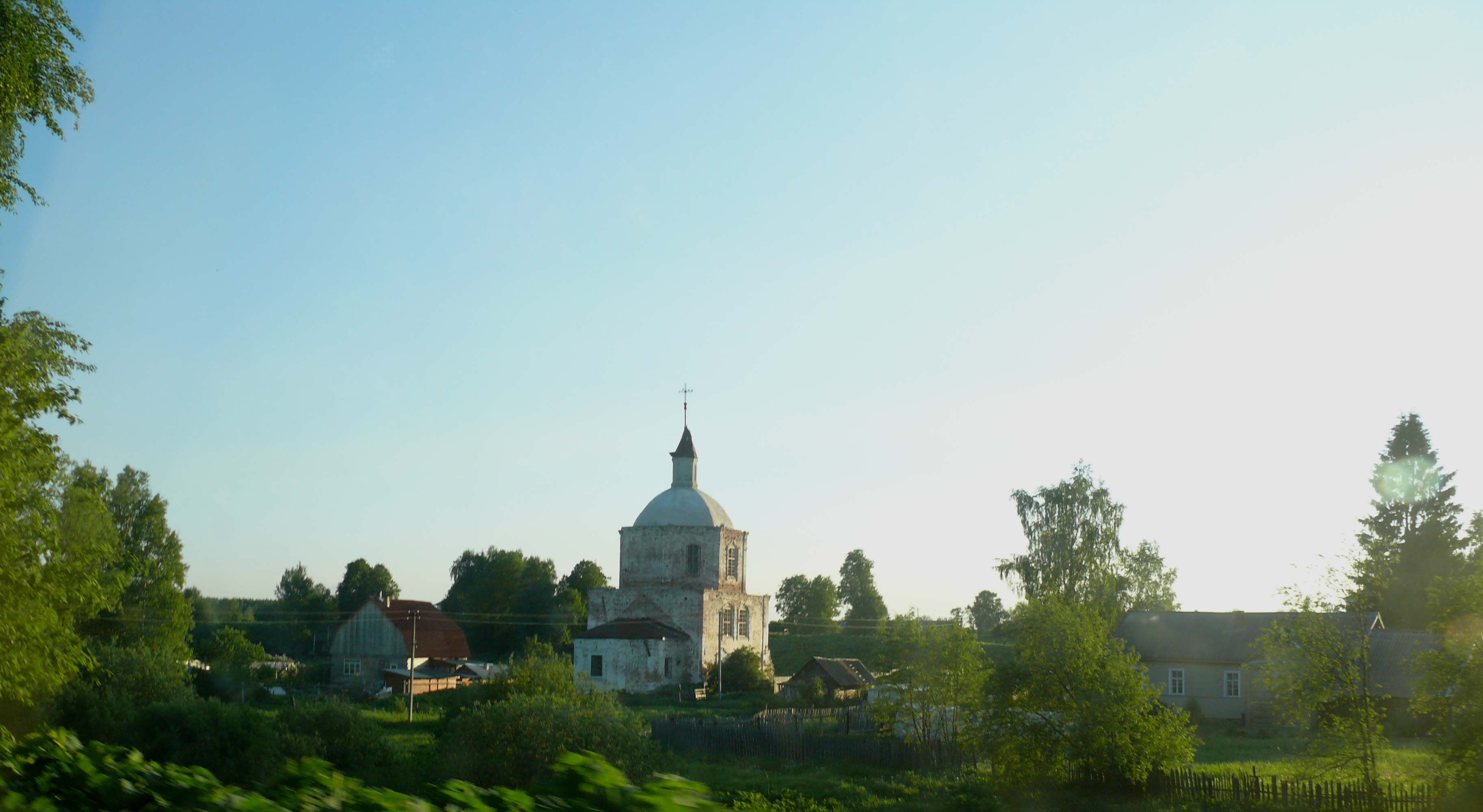 The Transfiguration Church in the village of Rovnoye. Borovichsky district, Novgorod oblast, Russia